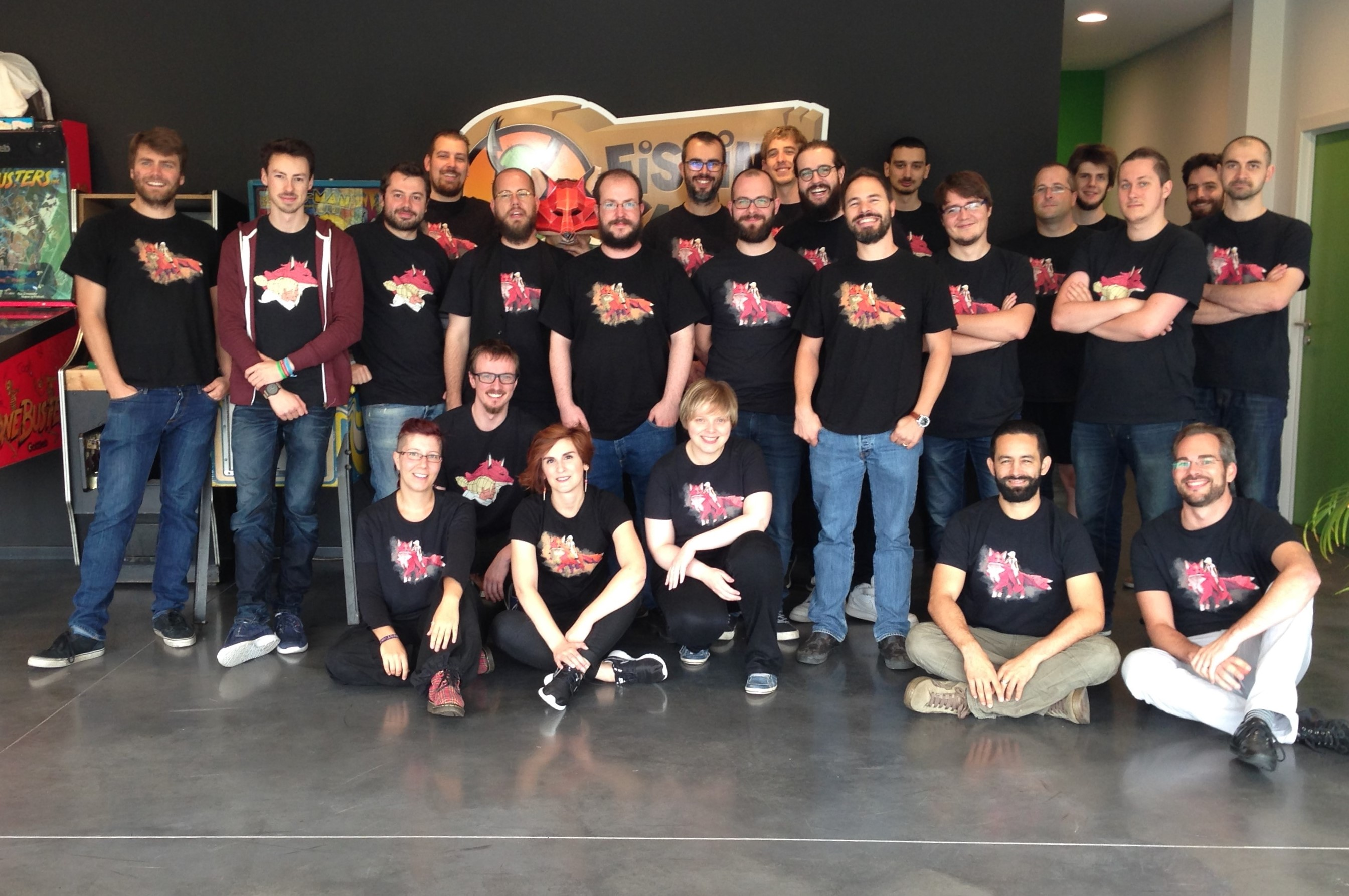 The whole studio wearing Epistory t-shirts